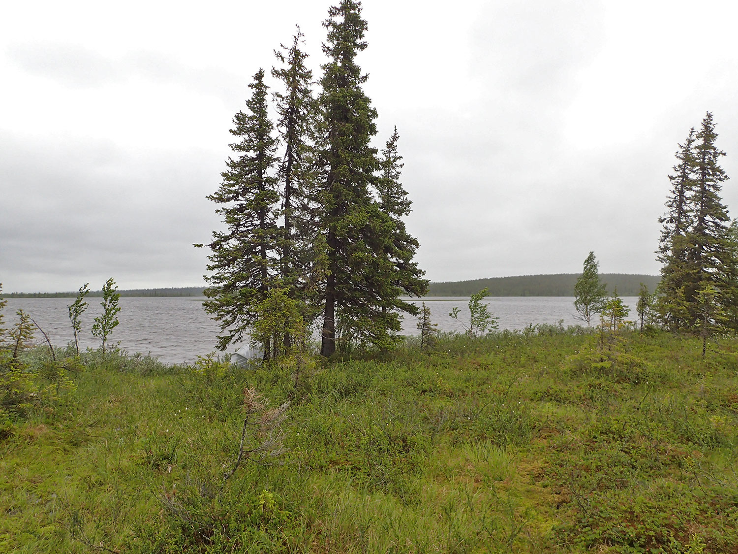 Lake Sattajärvi in Kiruna Municipality, viewed from the SE.